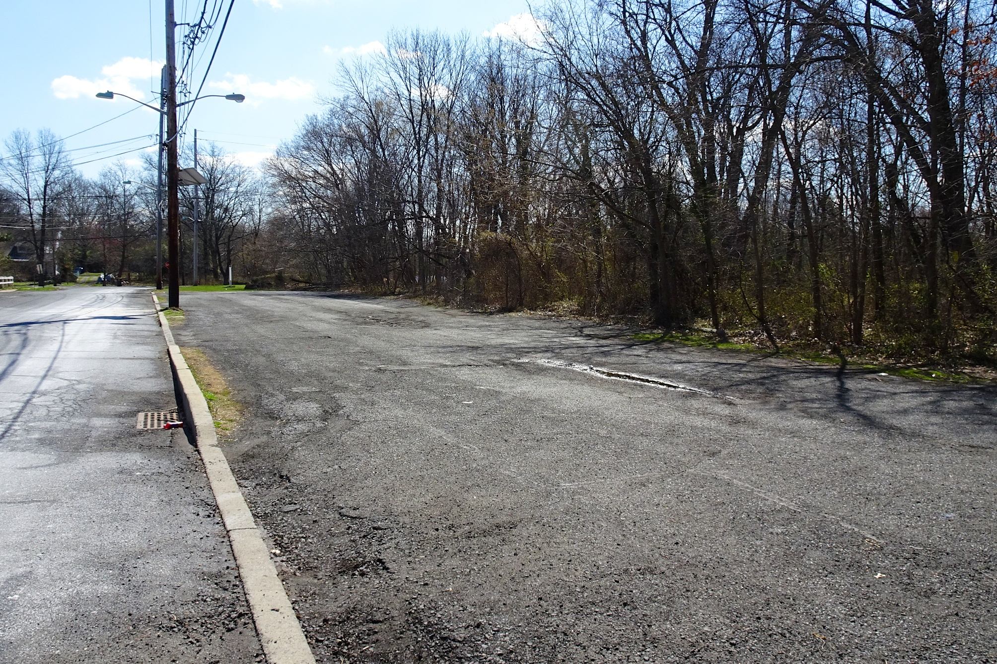 Site of railroad station, across from 7 Railroad Avenue, Middlebush, New Jersey. Built 1860 for the Millstone and New Brunswick Railroad, torn down 1948. Contributing site.